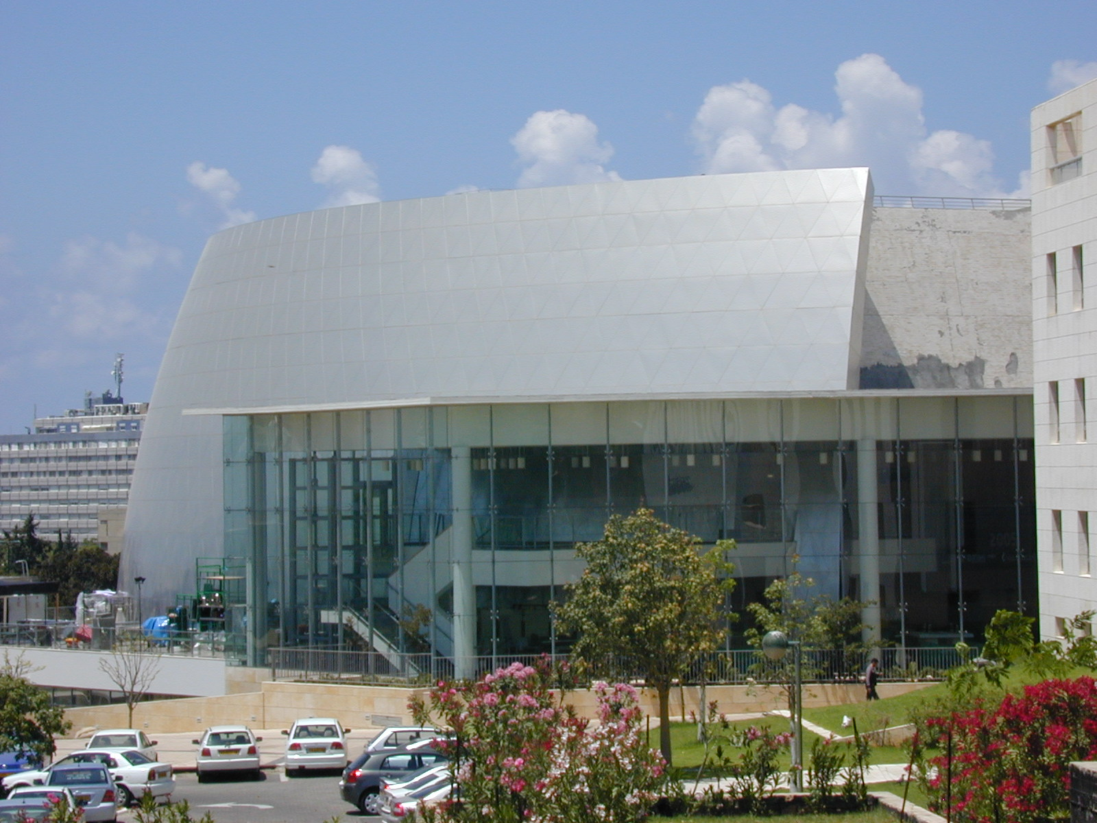 Smolarz Auditorium, Tel Aviv University Photographed by Ido Perelmutter (Ido50).